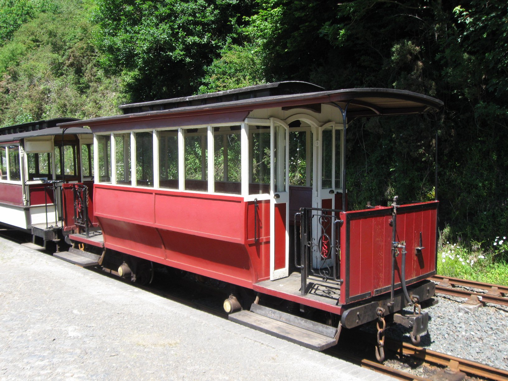 Carriages No. 67 (center) and 4 (left) of the Launceston Steam Railway